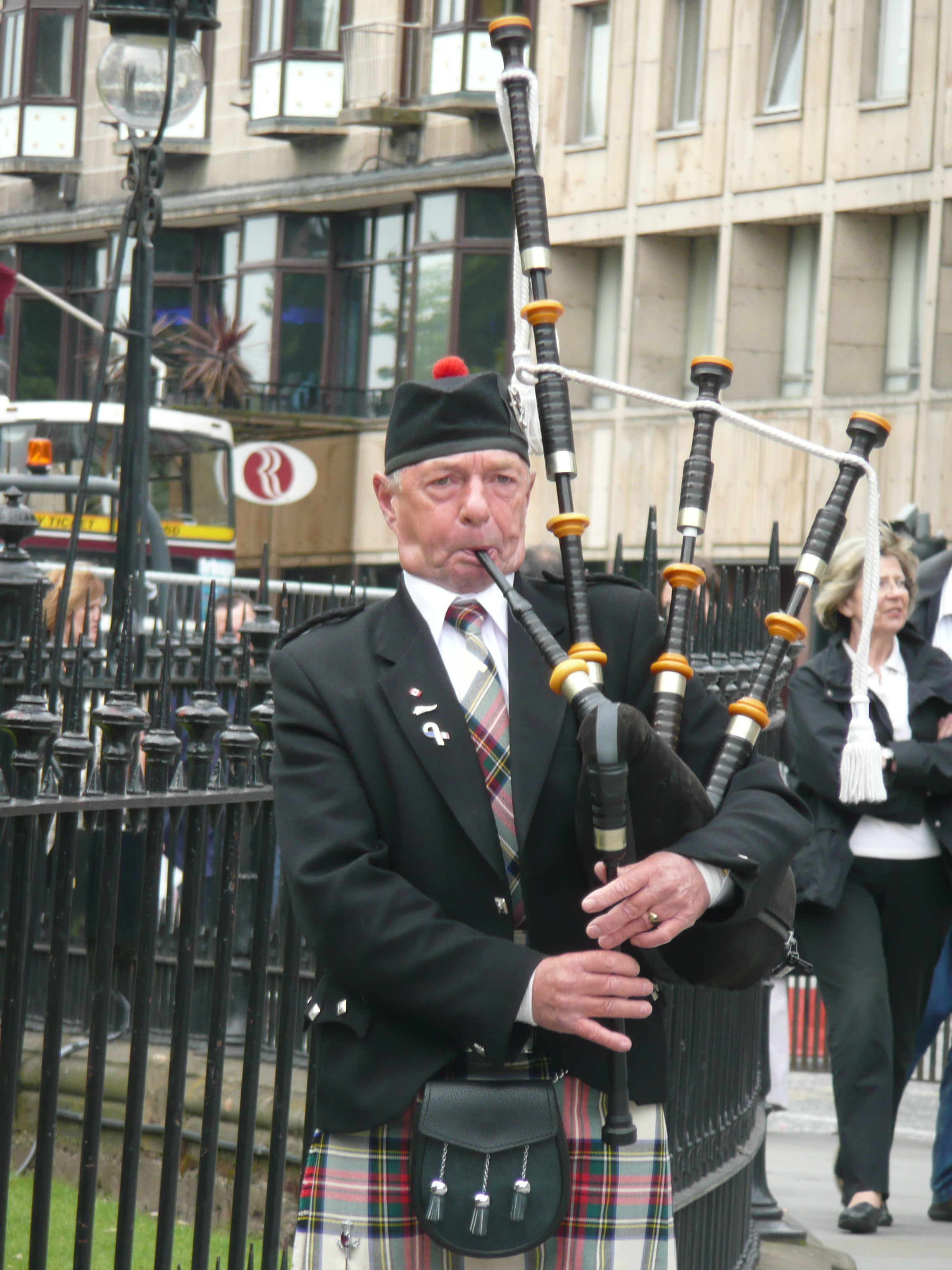 Photographs from Edinburgh, Scotland